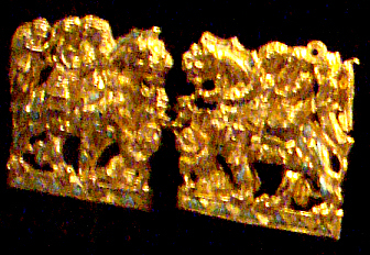 Dyonisos and Ariadne riding a lion. Tillia tepe. Musee Guimet. Personal photograph 2006.